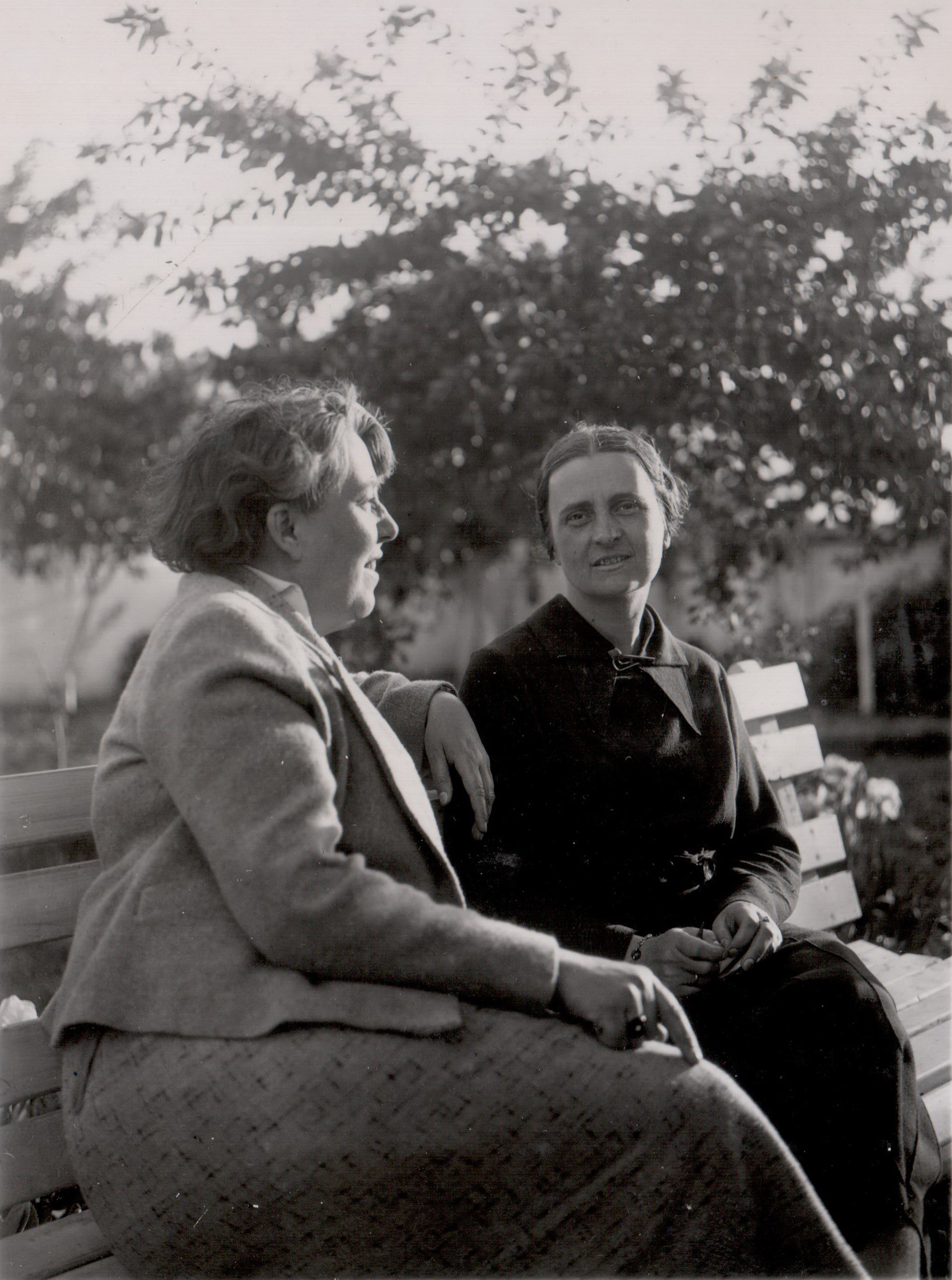 Alwine Wellmann and Evdokia Obreschkova in Sofia , May 16 1937